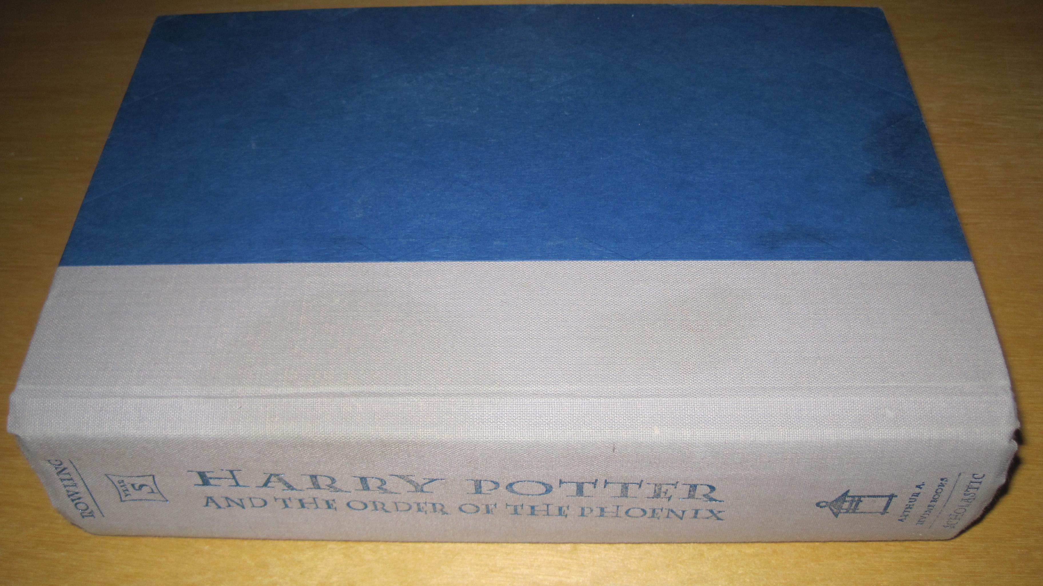 The first American edition of Harry Potter and the Order of the Phoenix published by Scholastic, without its dust jacket.